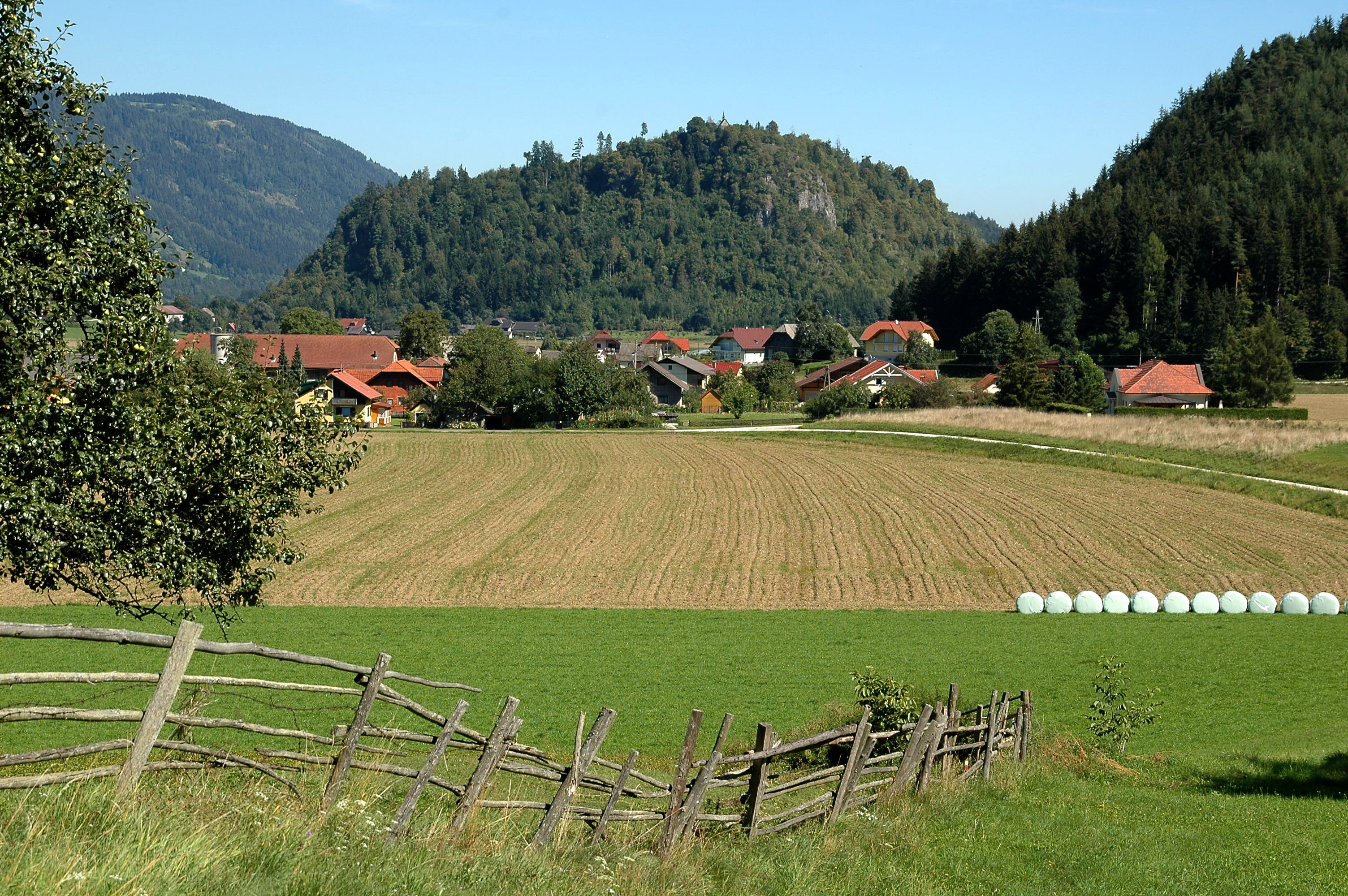 Locality Kremschitz and the Lamprecht ballon behind in Waisenberg, municipality Völkermarkt, district Völkermarkt, Carinthia, Austria, EU